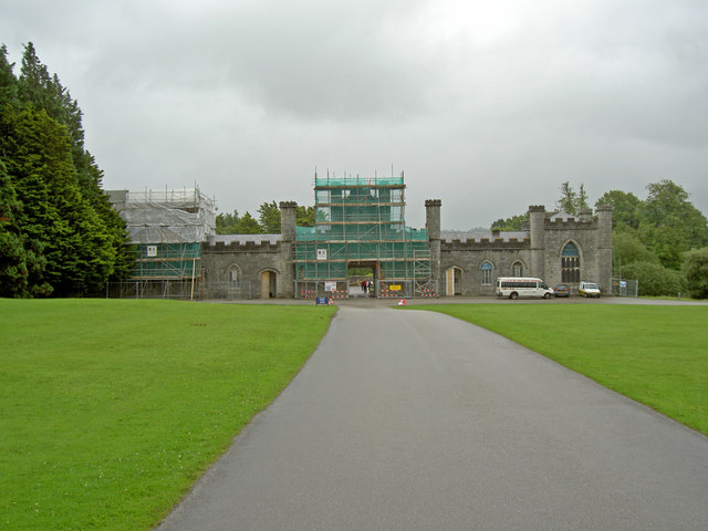 The School Block When HMS Conway was first established ashore at Plas Newydd this building was co-opted as the school block. Classrooms were created in temporary buildings in the internal quadrangle. Shower facilities were also used here and cadets would run down this path each day for their morning ablutions from "The Camp" where more temporary buildings housed dormitories.